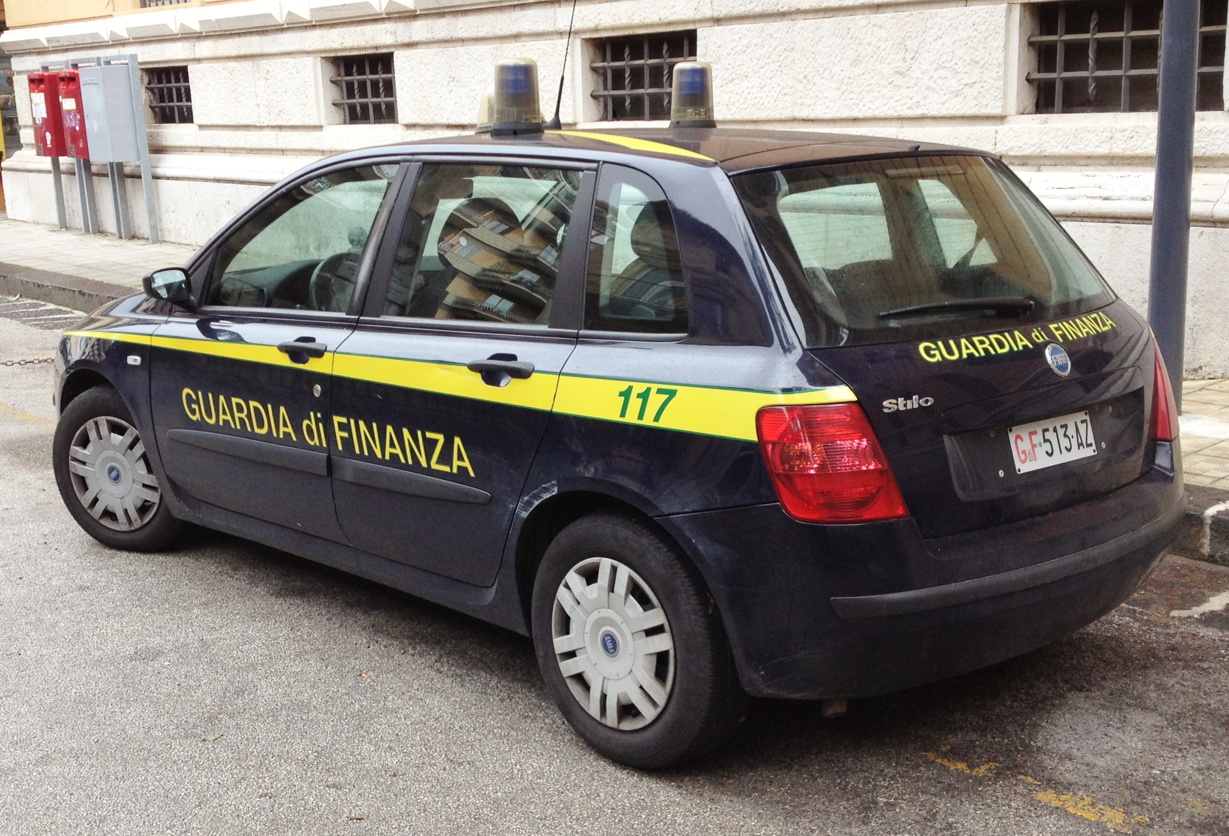 Fiat Stilo Guardia di Finanza